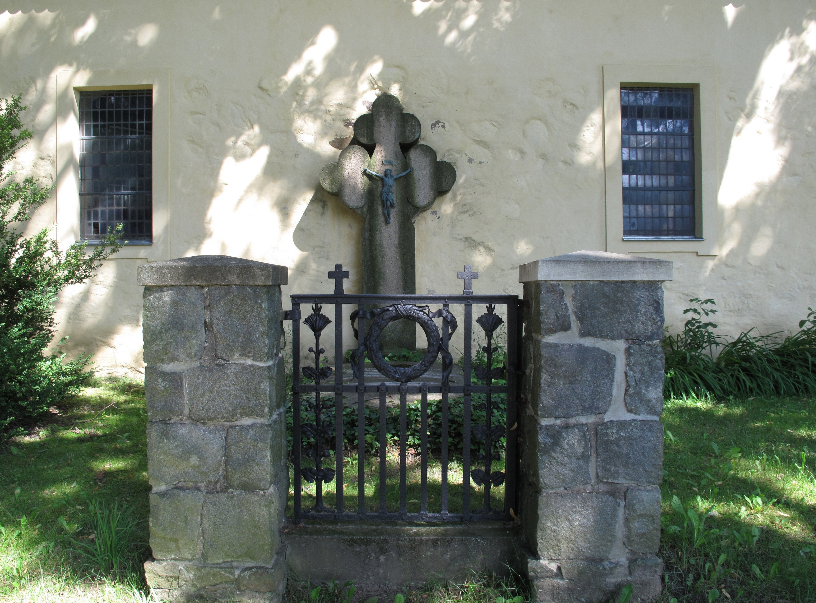 Listed grave of countess Charlotte Clementine von Itzenplitz (1835–1921) at the church in Pritzhagen, a village of the municipality Oberbarnim in the District Märkisch-Oderland, Brandenburg, Germany.